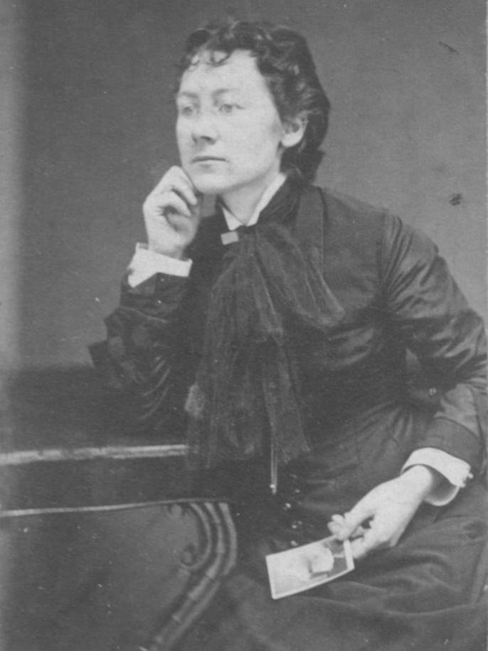 Nancy Brown, wife of The O'Rahilly, photographed after the Easter Rising. In her hand may be a photograph of her late husband.